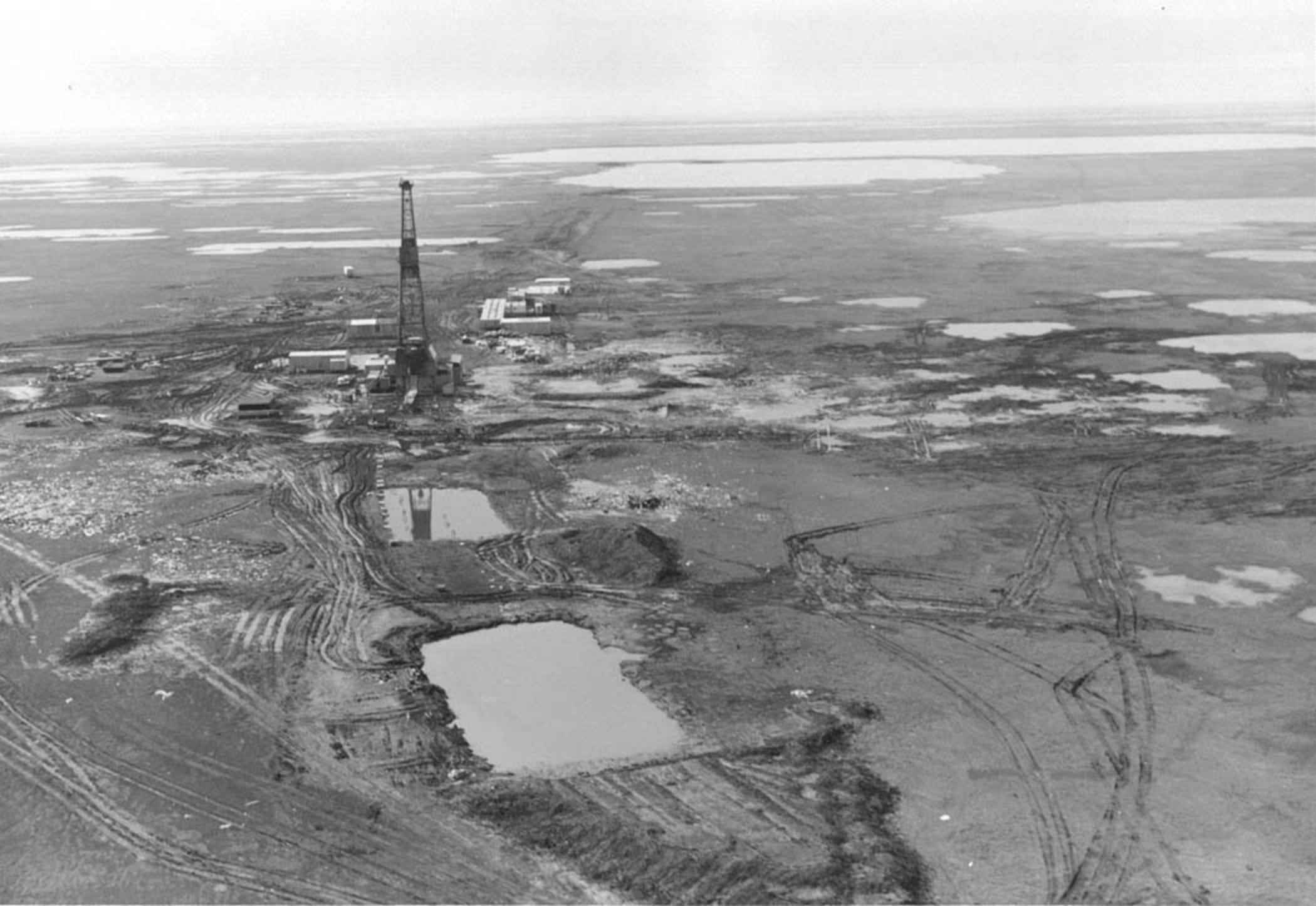 Image title: Aerial view of prudhoe bay Image from Public domain images website